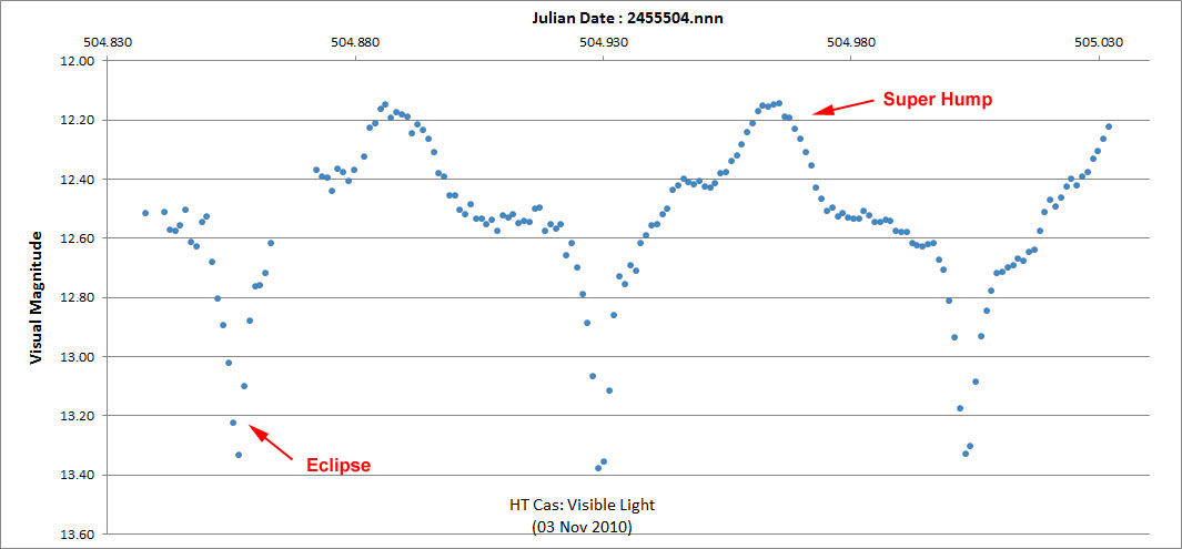 Light curve of eclipsing Dwarf Nova HT-Cas during 2010 outburst showing eclipses and super humps Y-axis is visual magnitude (increasing brightness is up), X-axis is time in days, (JD). Duration is 4 hr 39 min.